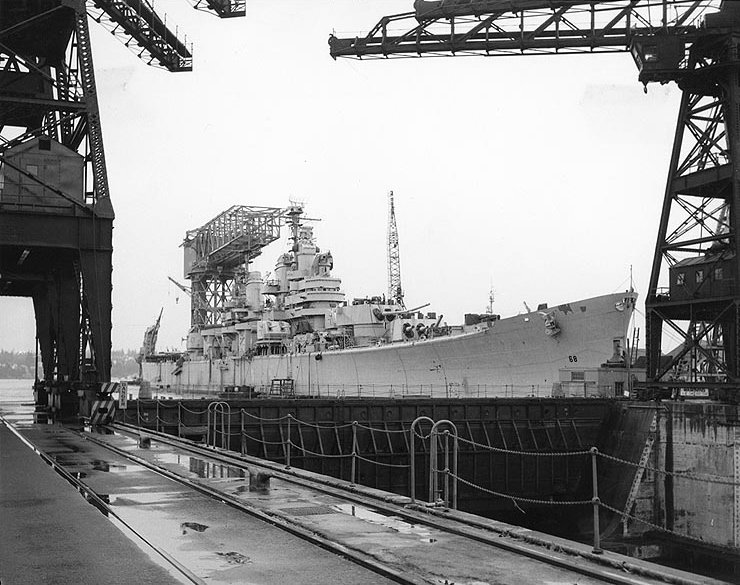 The U.S. Navy heavy cruiser USS Baltimore (CA-68) at the Puget Sound Naval Shipyard, Bremerton, Washington (USA), while undergoing reactivation in 1951. Note the unusual black hull number. The original print is dated 28 November 1951, the day Baltimore was recommissioned, but was probably taken somewhat earlier.